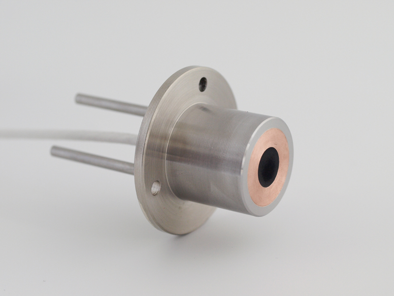 SBG01 is a water-cooled heat flux sensor. Its main purpose is the study of fire and flames, applied in flammability tests and smoke chamber tests. SBG01 measurements are in accordance with ASTM E 622-83, as well as ISO 5658, 5560 and 17554 standards.